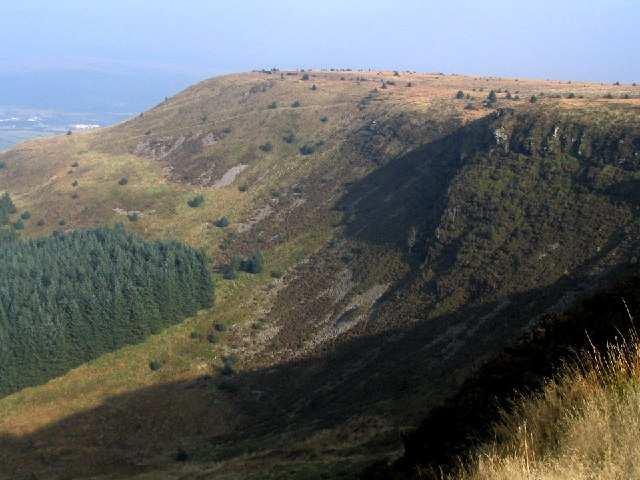 West face of Craig Y Llyn. This is the west side of the outcrop as seen from the ridge around Llyn Fach.